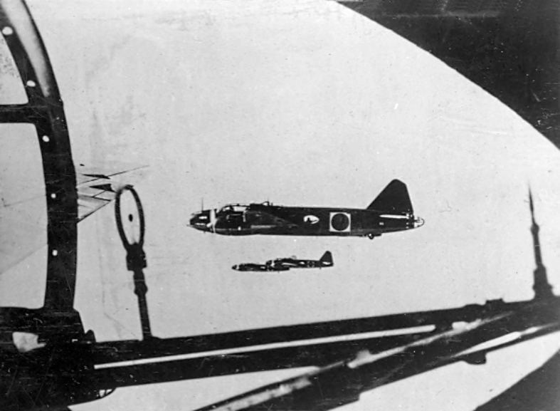 A photograph captured in the Mariana Islands that shows Japanese Mitsubishi G4M Betty bombers in flight.